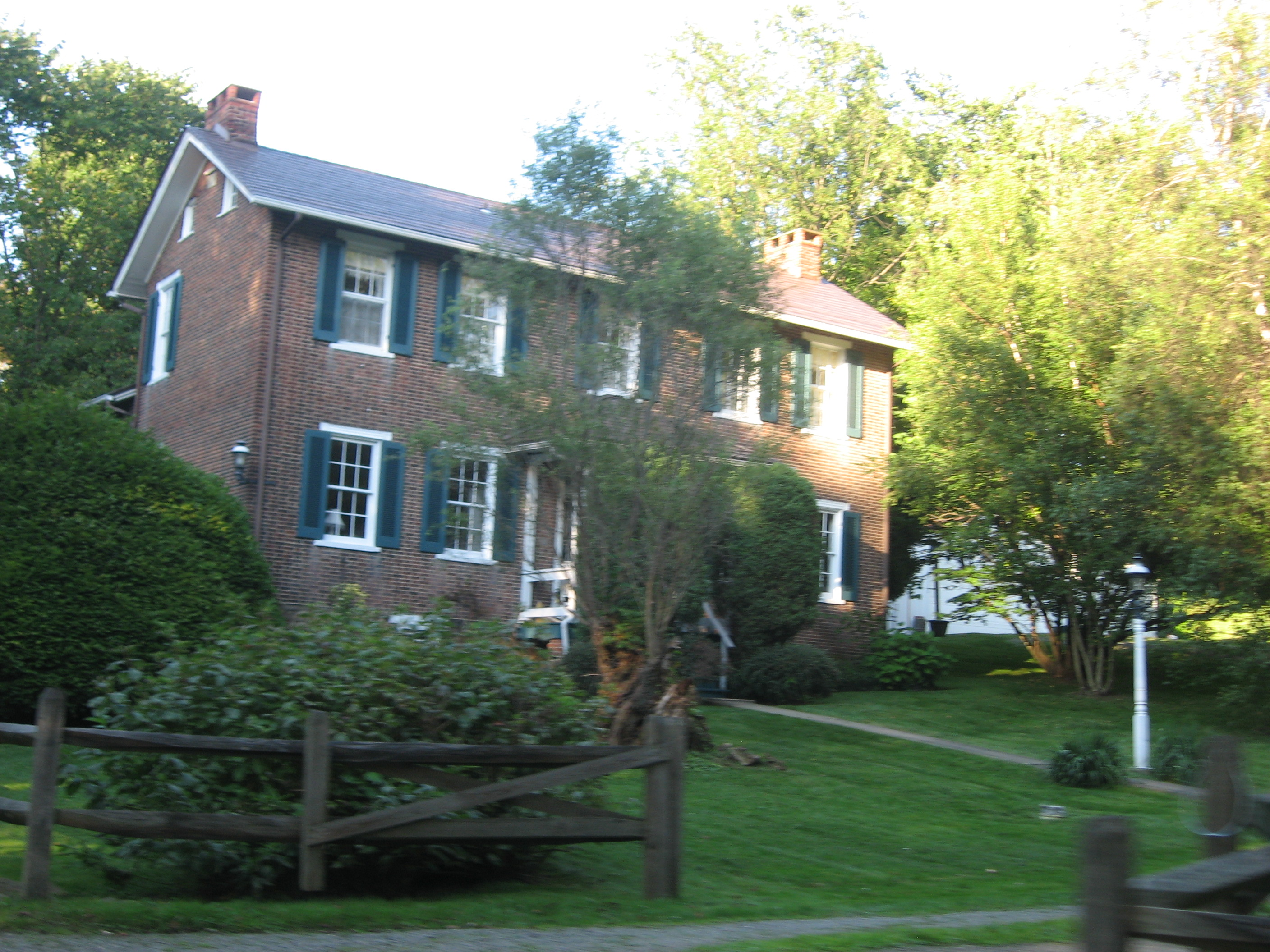 Front of the Byerly House, located at 115 Menk Road east of New Kensington in Upper Burrell Township, Westmoreland County, Pennsylvania, United States. Built in 1835, it is listed on the National Register of Historic Places.